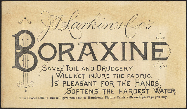 Advertising card for Larkin Soap "Boraxine" created in 1882 and currently in the Boston Public Library Print Department.